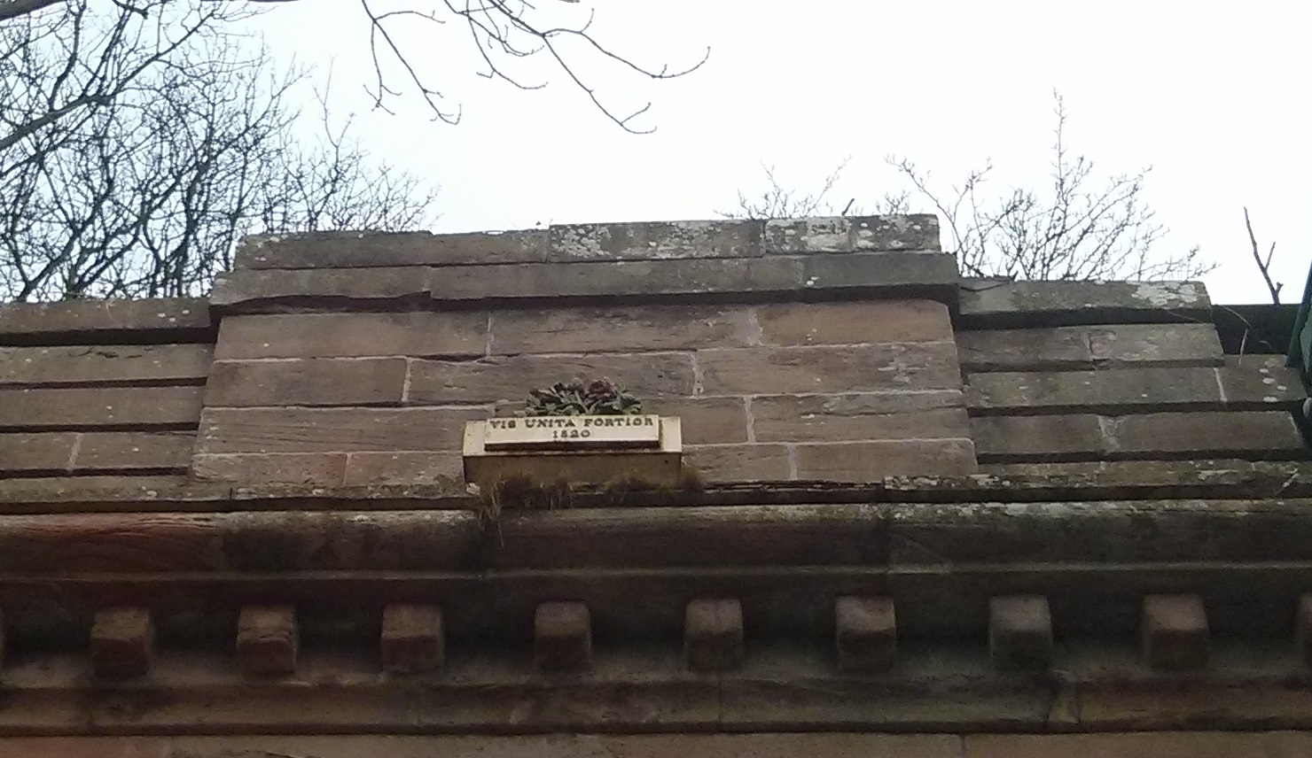 The Union Chain Bridge crossing between the Scottish Borders and Northumberland, England.